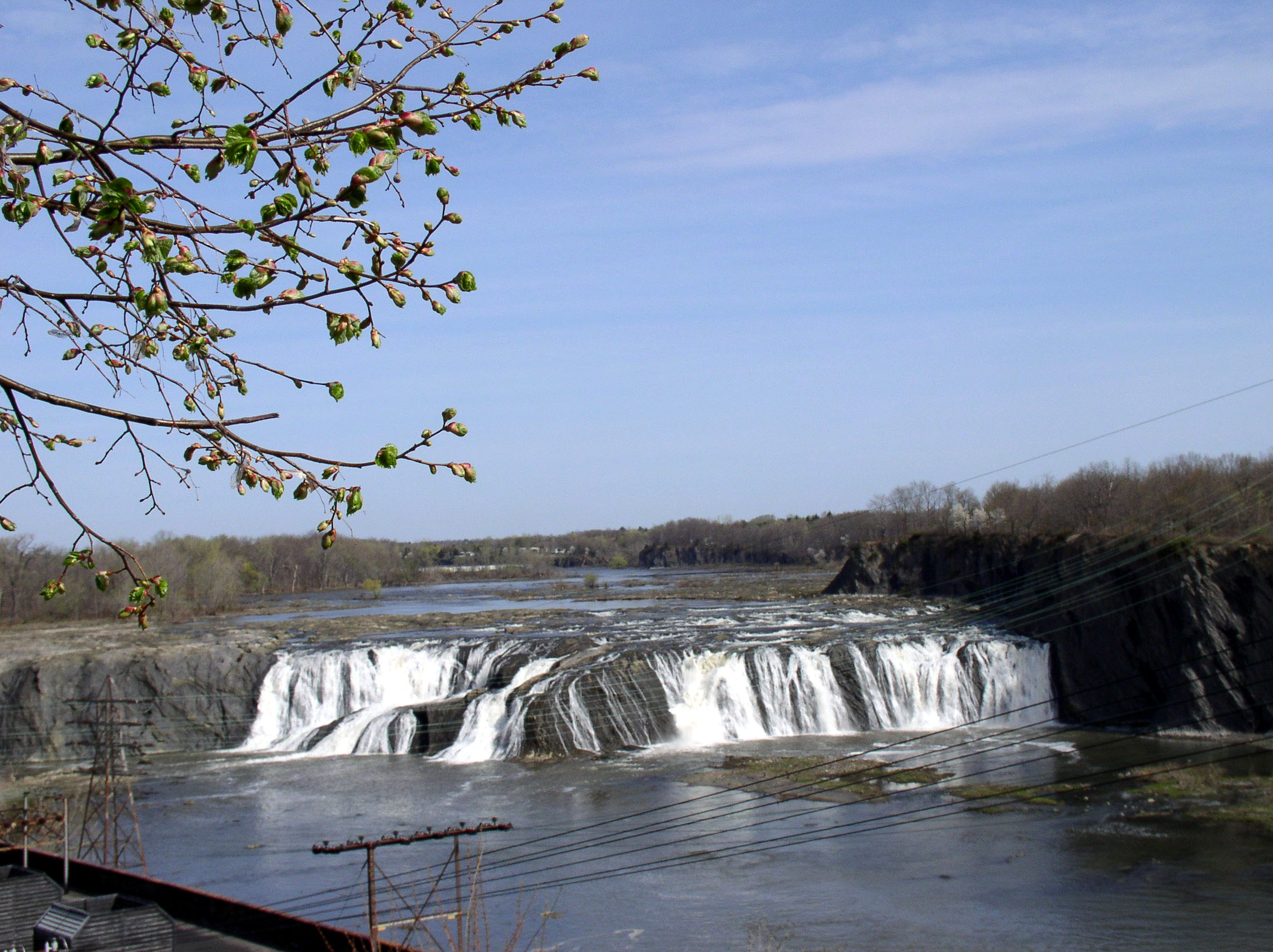 Cohoes Falls on the Mohawk River, New York, USA. Photo from the Mohawk Towpath Byway collection.